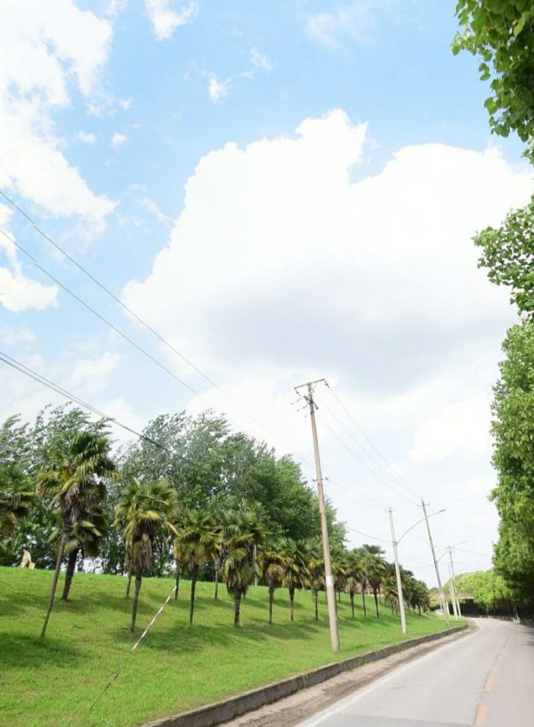 Wuhui Street,Qingshanzhen Subdistrict.